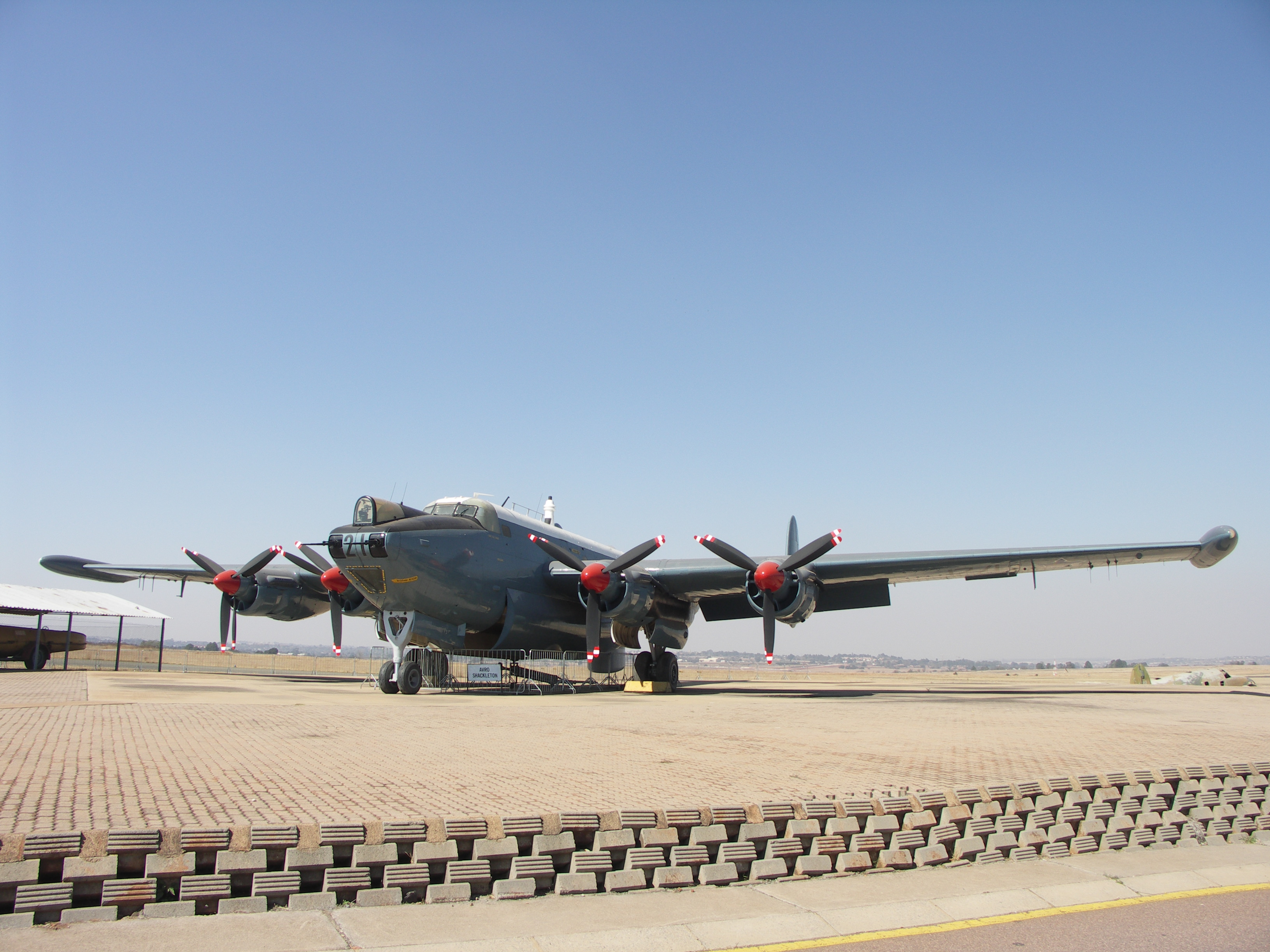 Avro Shackleton, SAAF 1721(N) South African Air Force Museum, Swartkop